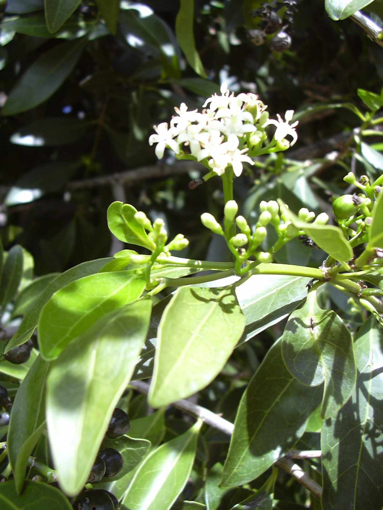 Psydrax odorata (flowers). Location: Maui, Maui Nui Botanical Garden